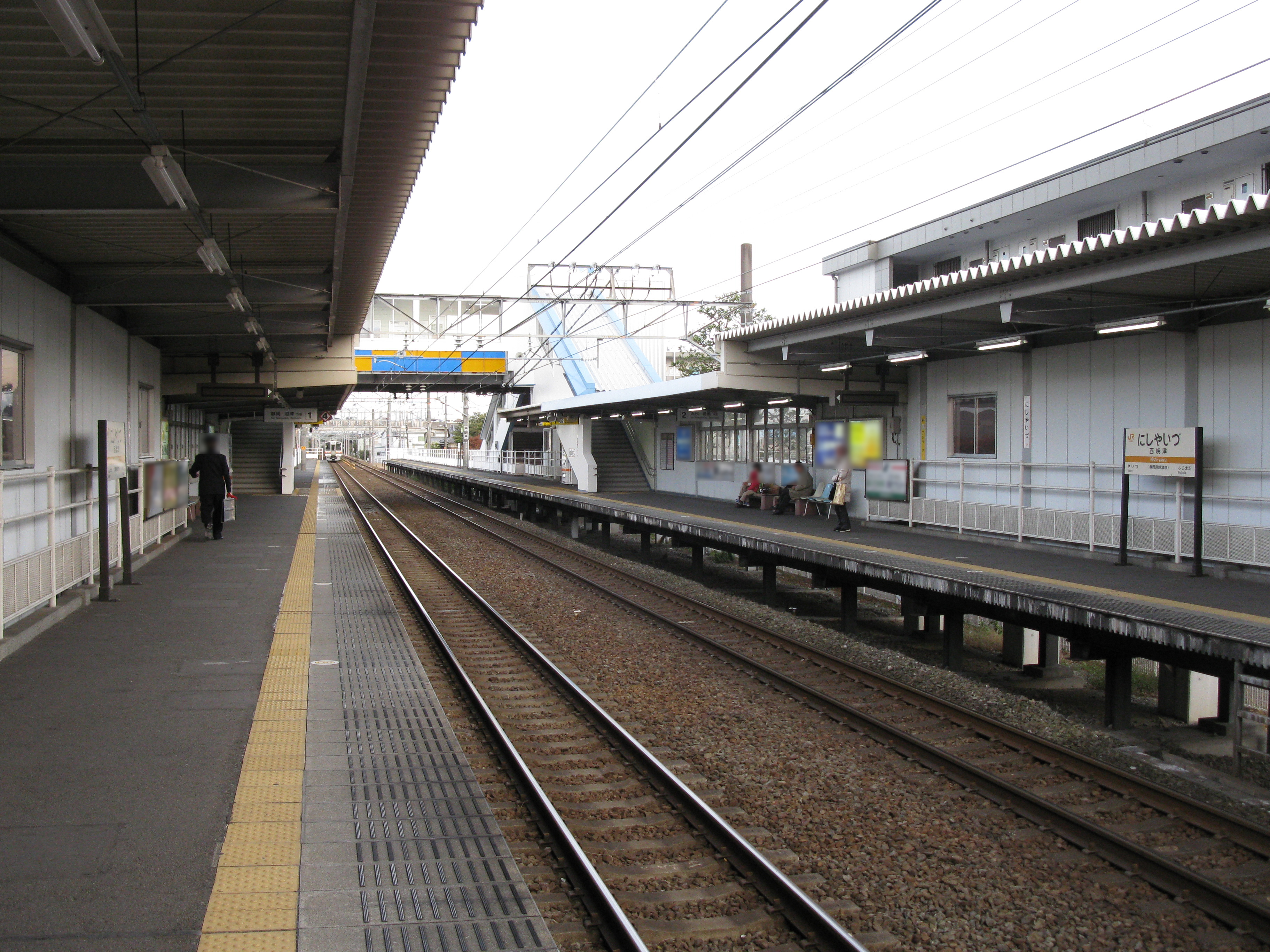 Nishi-Yaizu Station platform (Central Japan Railway(JR Central) Tōkaidō Main Line)